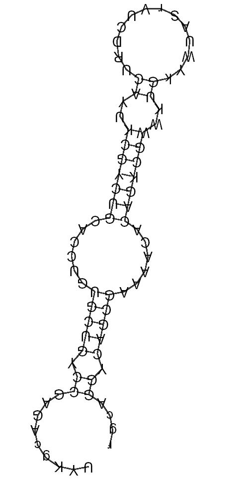 RNA secondary structure of TB6Cs1H1 generated by the WAR server( It is the consensus structure from 8 Trypansomatid species -Leishmania major, Leishmania infantum, Leishmania braziliensis, Trypanosoma brucei, Trypanosoma brucei gambiense, Trypanosoma cruzi, Trypanosoma congolense, Trypansoma vivax